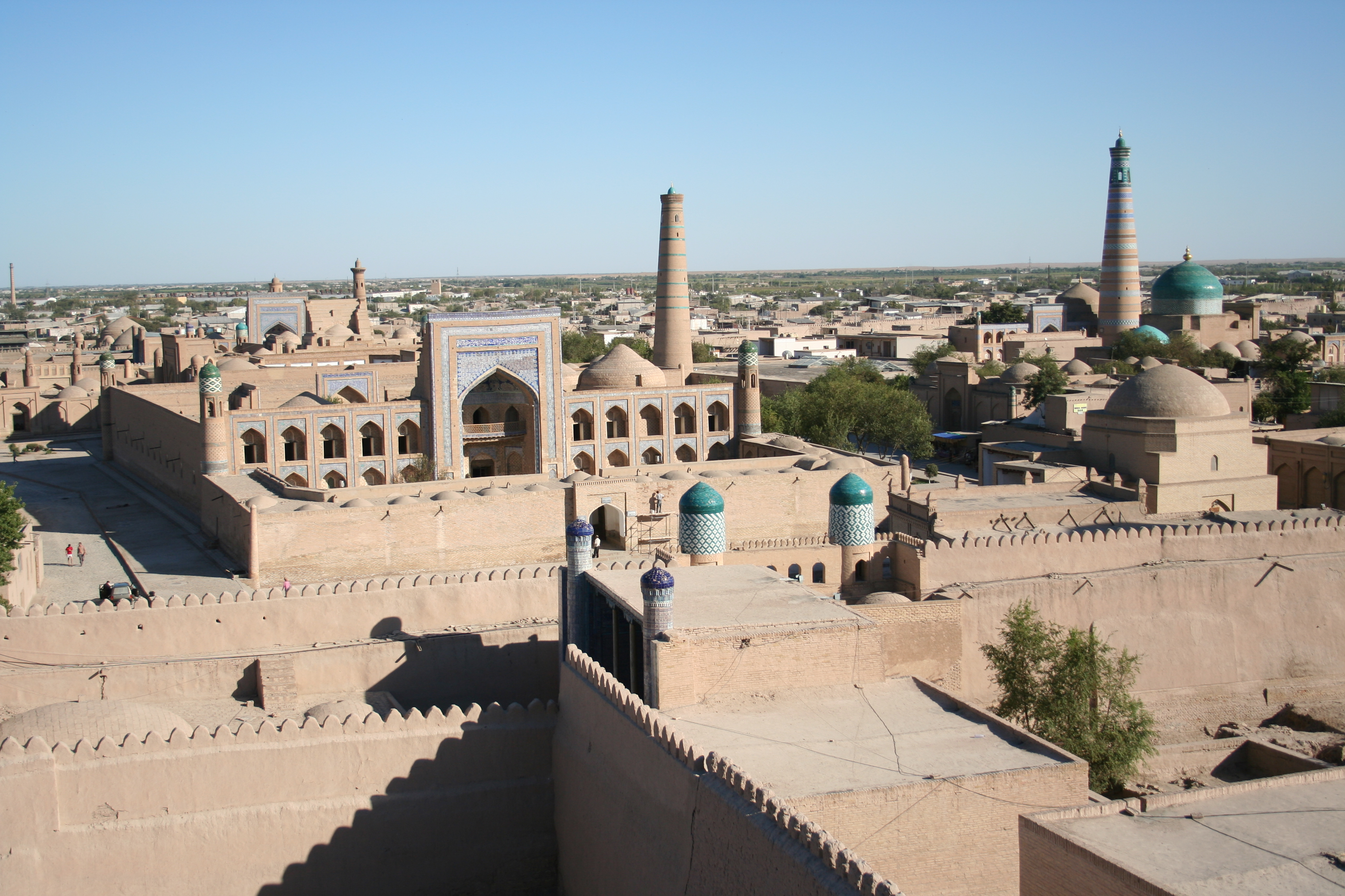 Khiva (Itchan Kala), general view